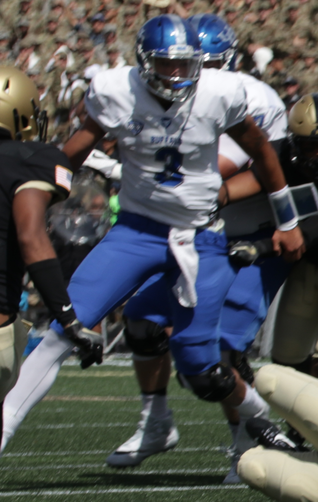 Army Black Knights vs. Buffalo Bulls at Michie Stadium on September 9, 2017